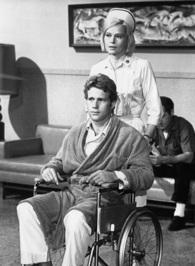 Photo of Ryan O'Neal as Rodney Harrington from the television program Peyton Place.